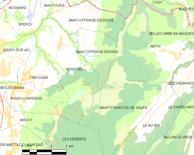 Map of French municipality Saint-Offenge-Dessus